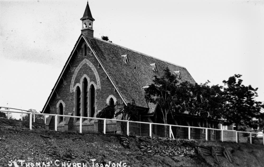 St Thomas Anglican Church at Toowong Brisbane